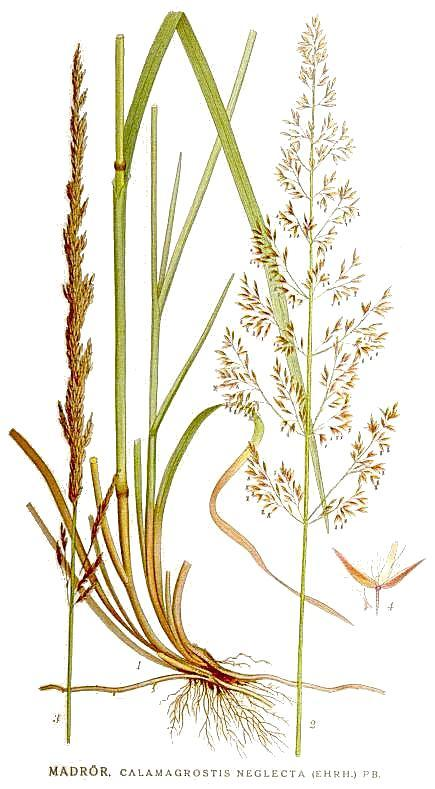 Calamagrostis stricta (Timm) Koeler, syn. Calamagrostis neglecta (Ehrh.) P.Gaertn., B.Mey. & Schreb. Original Description "Madrör", Calamagrostis neglecta (Ehrh.) Pb.